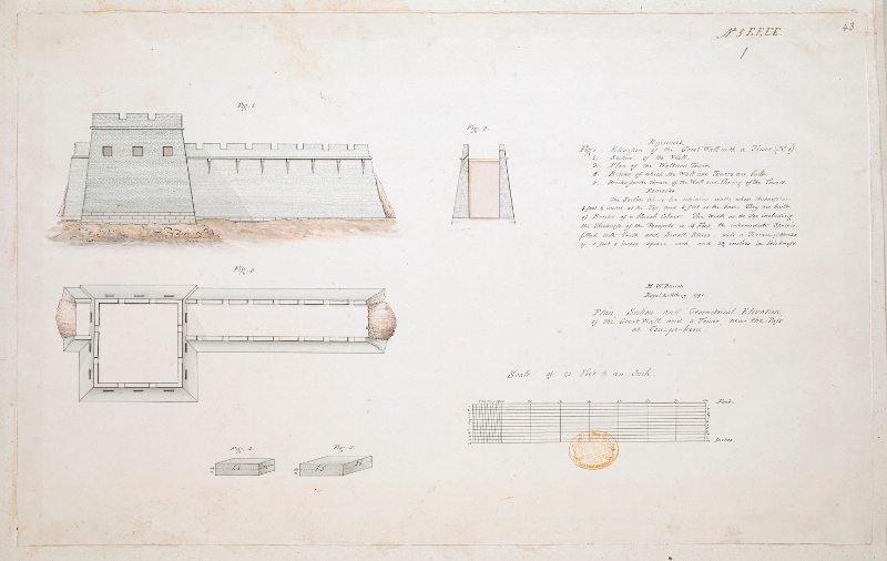 One of several technical drawings of the Great Wall of China produced by Lieutenant Henry William Parish of the Royal Artillery during Lord Macartney's embassy to China. Reproduced as watercolors by William Alexander, and also printed as engravings. Scale: 240.20 feet to 1 inch.